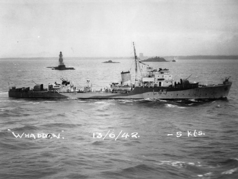 British destroyer HMS WHADDON underway.